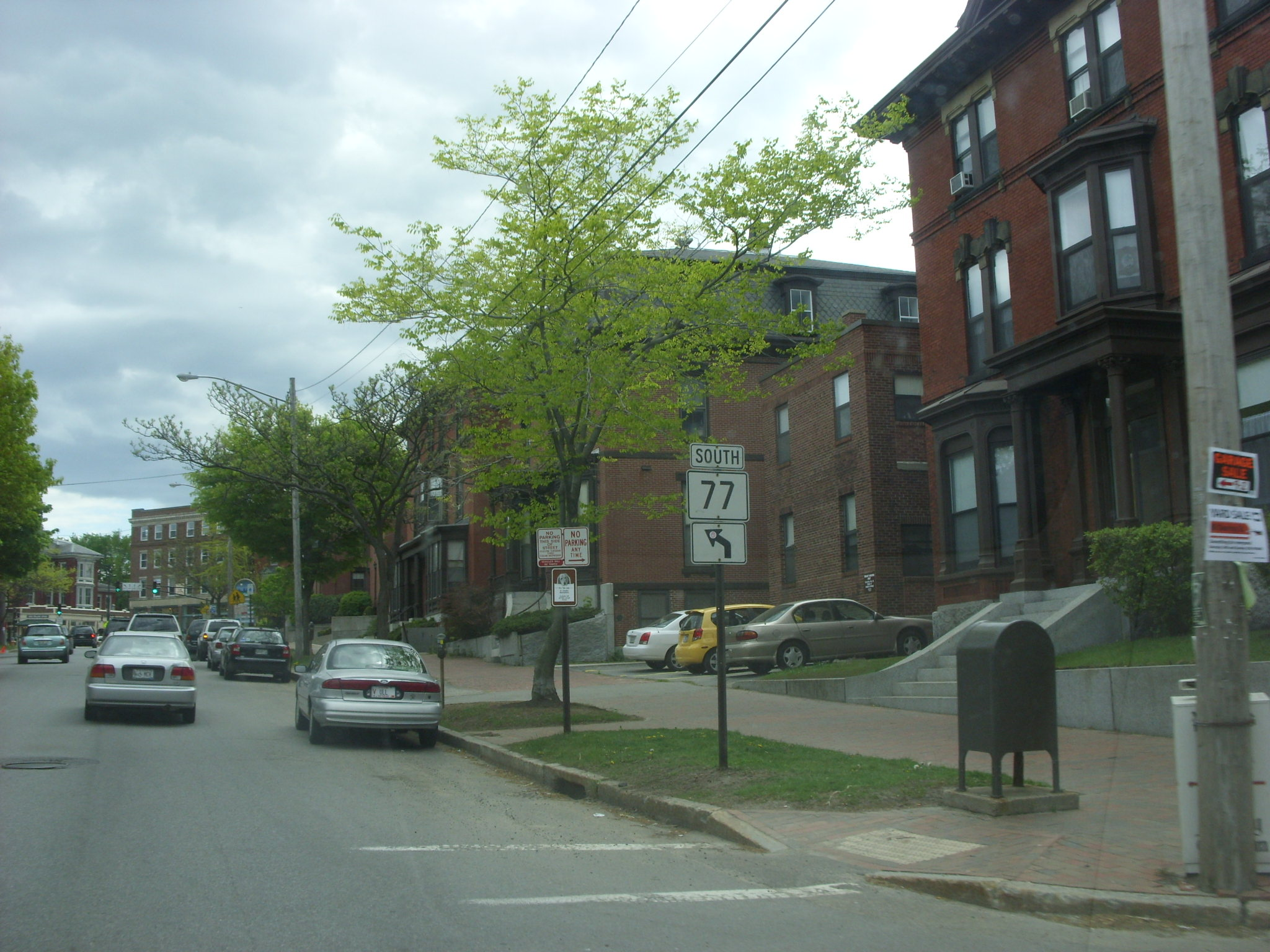 Maine Route 77 heading Southbound.